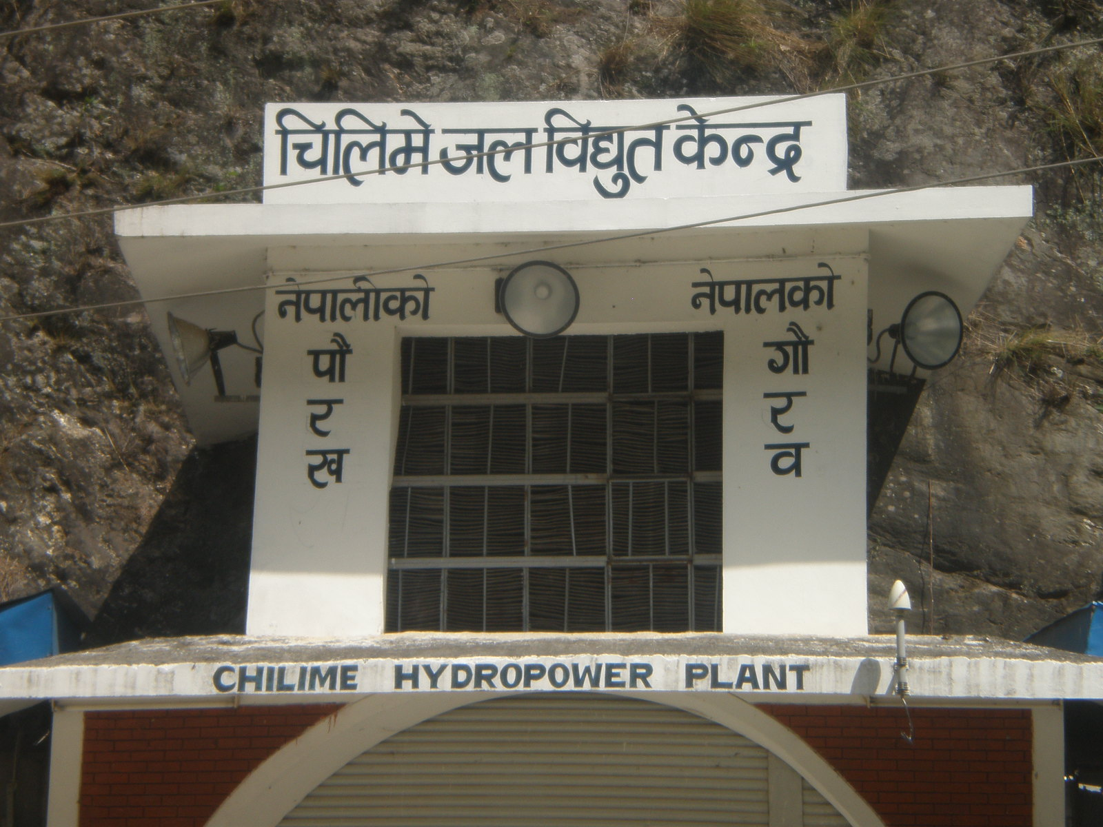 Chilime Hydropower project of Nepal.